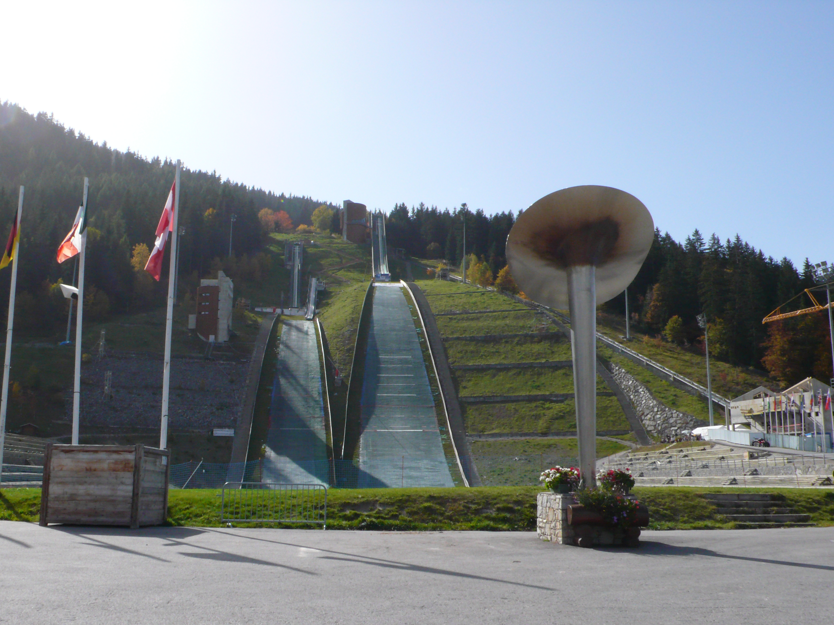 Le Praz - ski jumping hills in Courchevel : K120, K90, K60, with the 1992 olympic torch.